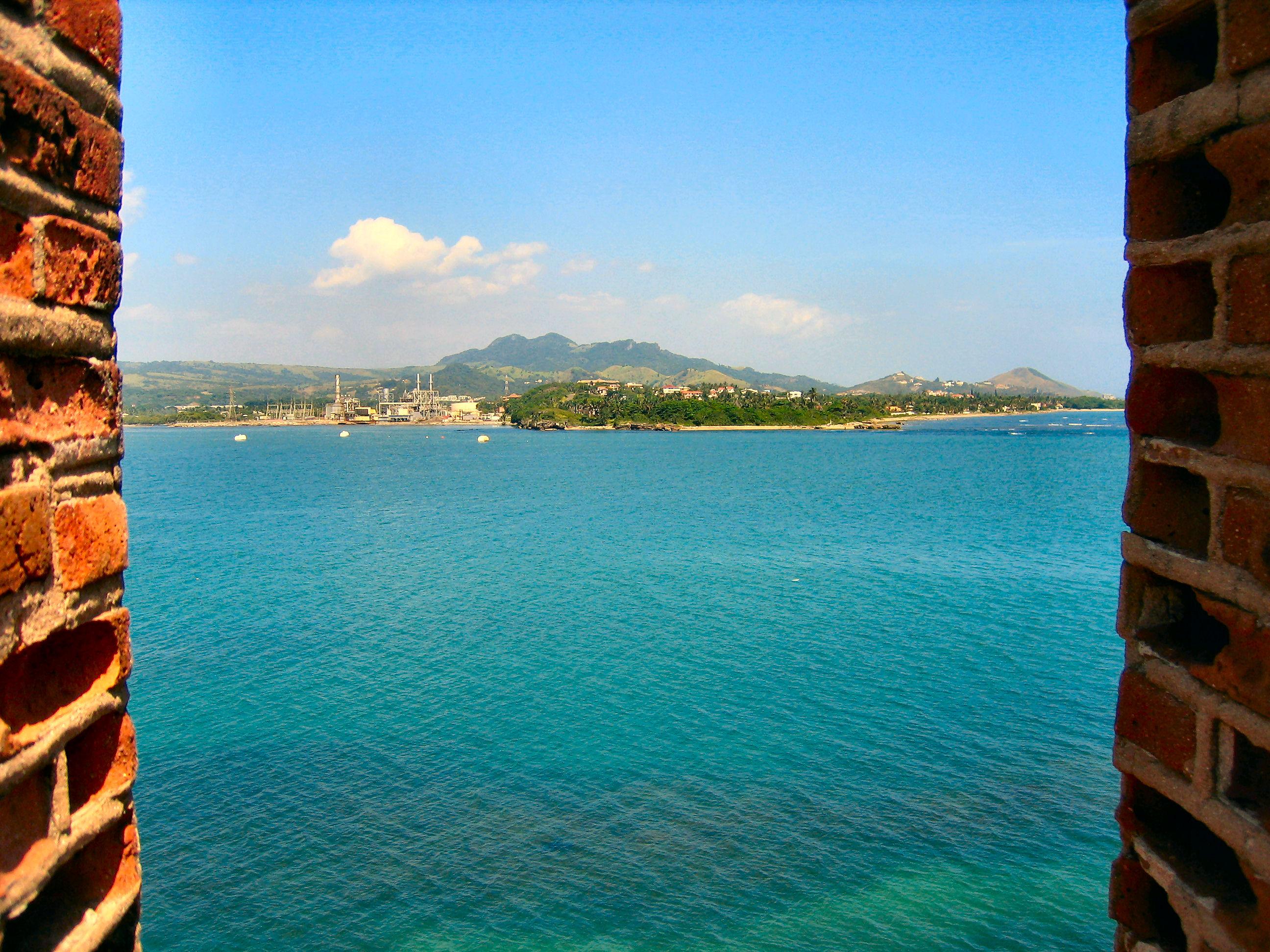 The view from the gun emplacement of this small coastal fort in Puerto Plata in the Dominican Republic.